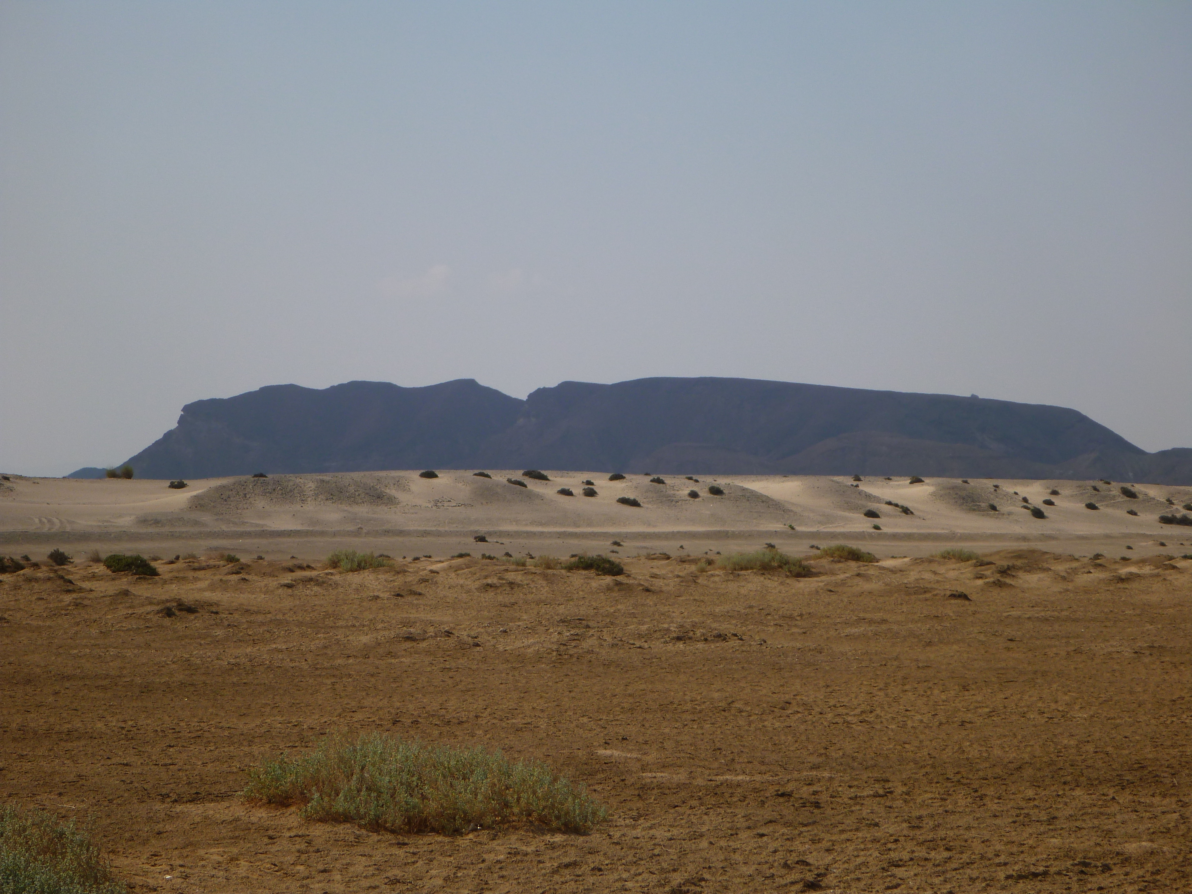 Wadi-al-Gamal-National Park from diving place at Abu Ghusun at Red Sea